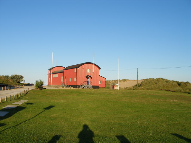 The second(Ex-RNLI) of two lifeboat buildings at Caister on Sea, Norfolk